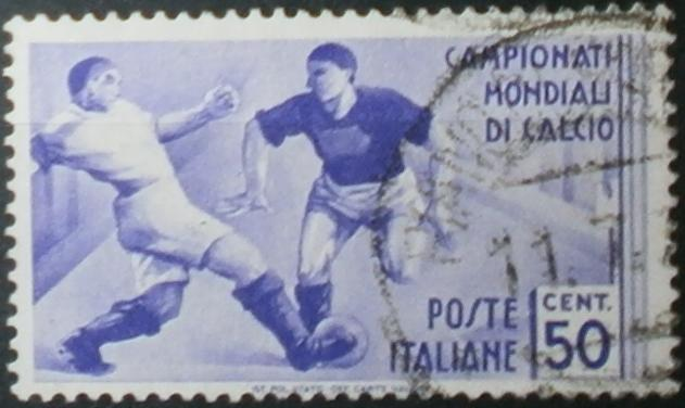 World Cup 1934 stamps - 50 cent - Kingdom of Italy stamp